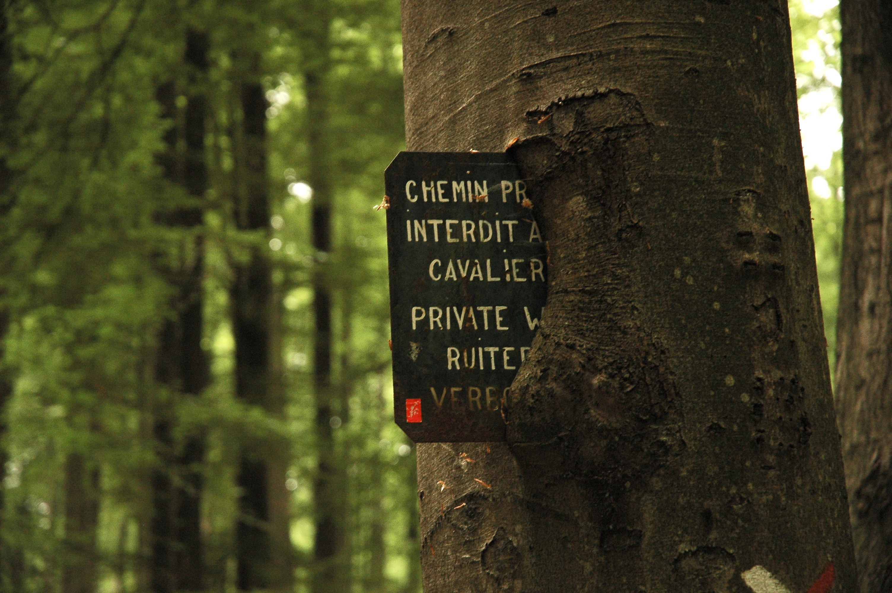 Private path, horse riding prohibited